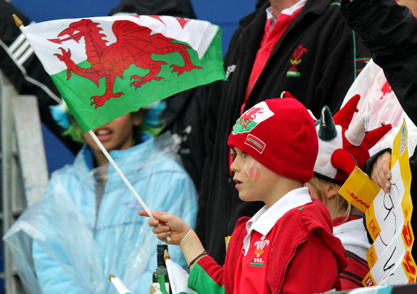 coupe du monde de rugby 2011 nouvelle zelande pays de galles fidgi